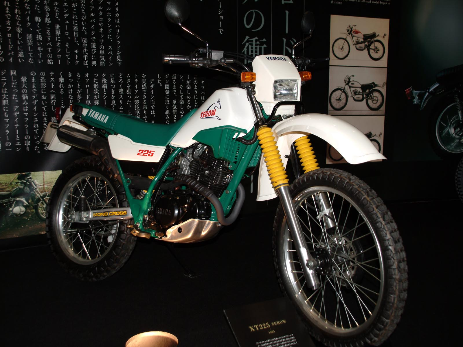 YAMAHA SEROW225 (XT225)